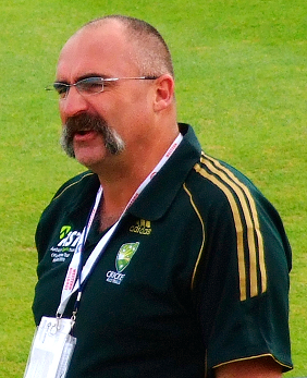 5th Day, 3rd Test: England v Australia, Edgbaston, 3rd August 2009 Merv Hughes and Jason Gillespie (cropped out) share some thoughts.